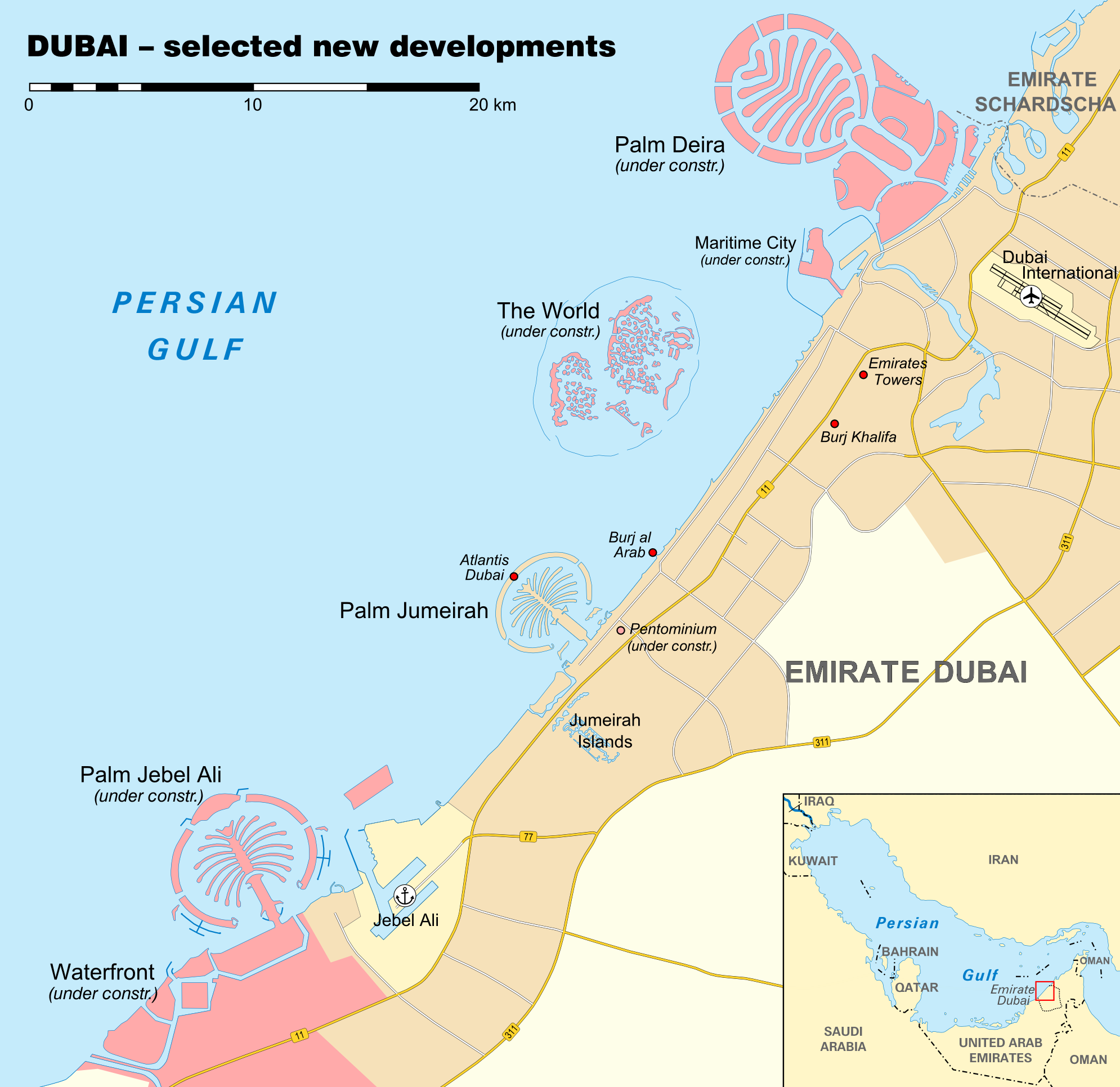 Map of new developments in Dubai (Palm Jebel Ali, Palm Jumeirah, Palm Deira, The World, The Universe, Dubai Waterfront and other), state: January 2010